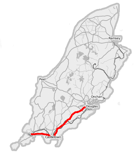 This map may be incomplete, and may contain errors. Don't rely solely on it for navigation.